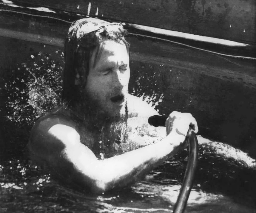 1972 Press Photo Larry Young in Olympic Trials at Steeplechase Pool, Oregon